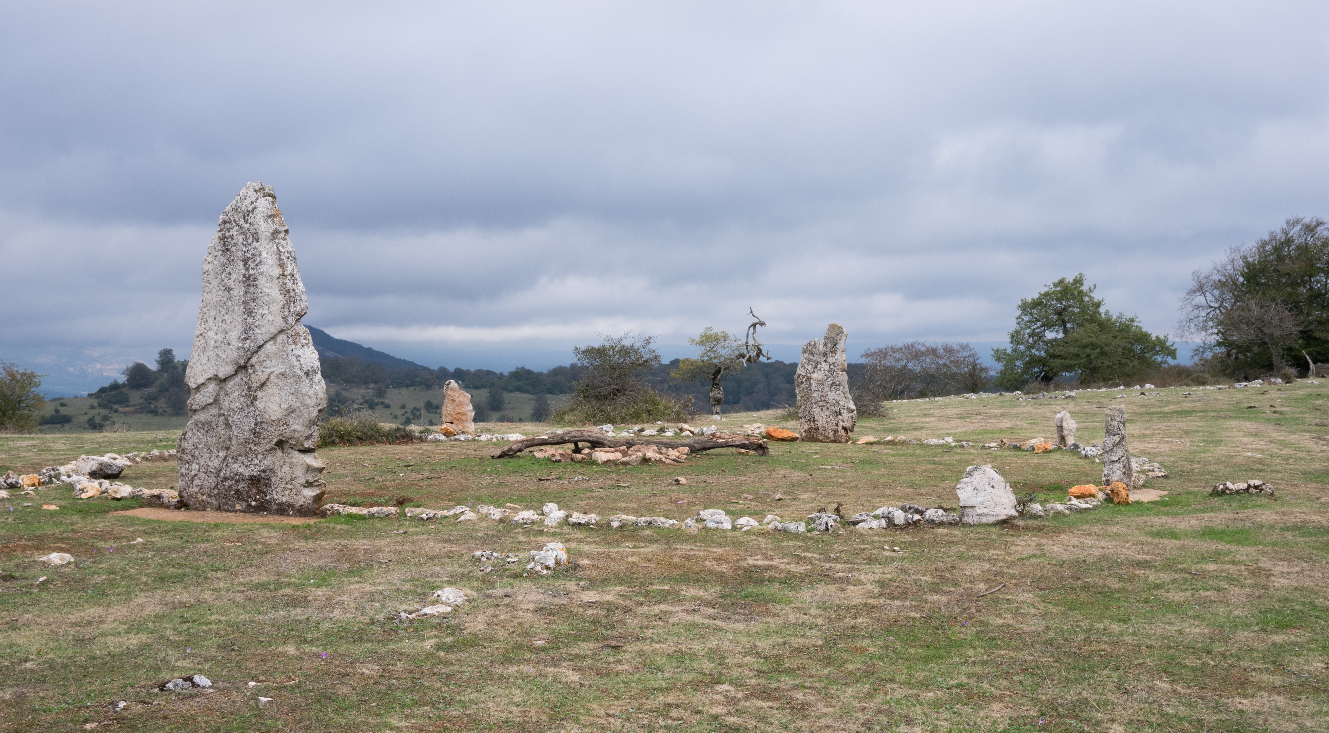 Mendiluze Cromlech. Álava, Basque Country, Spain